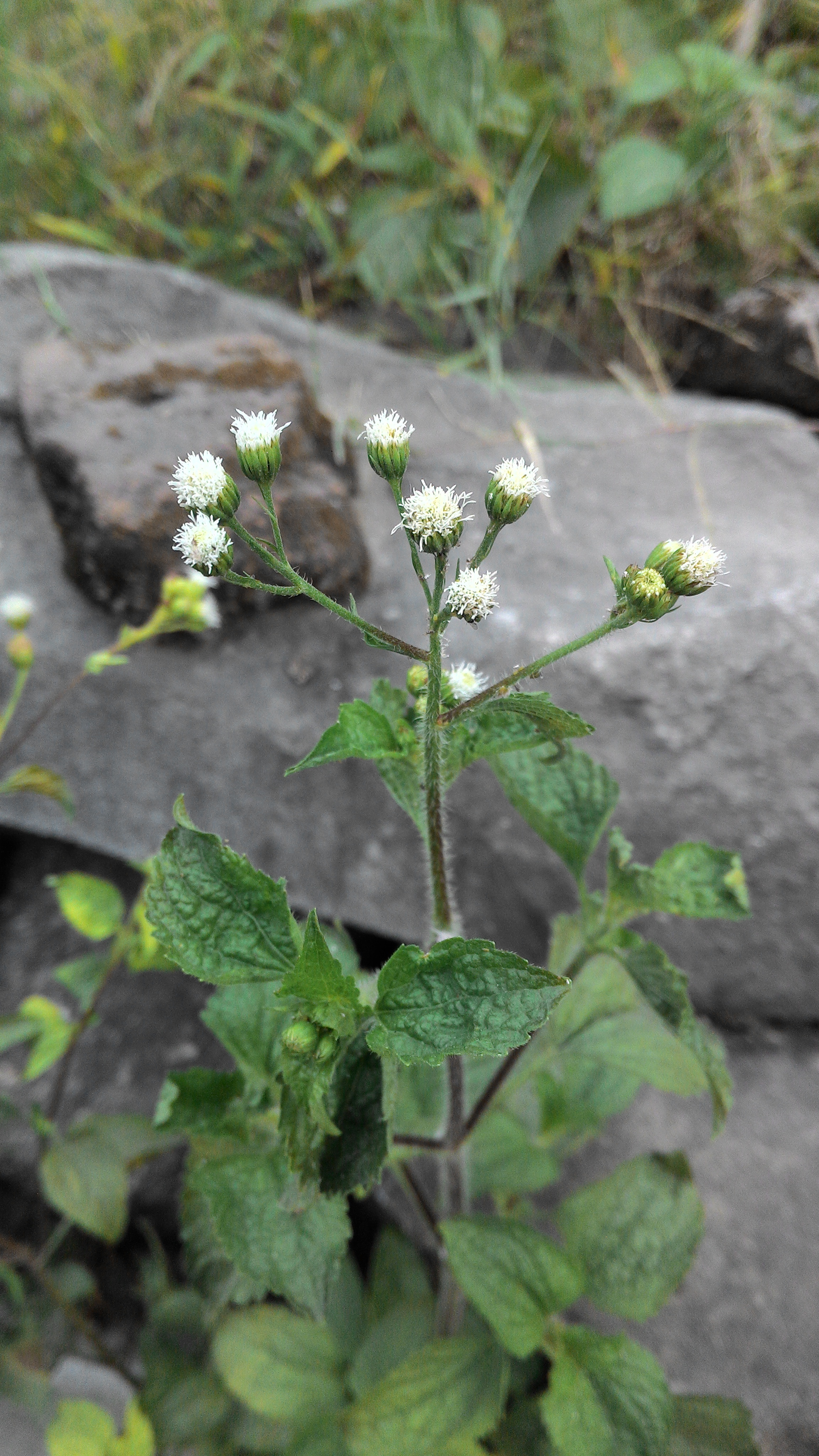 Ageratum conyzoides